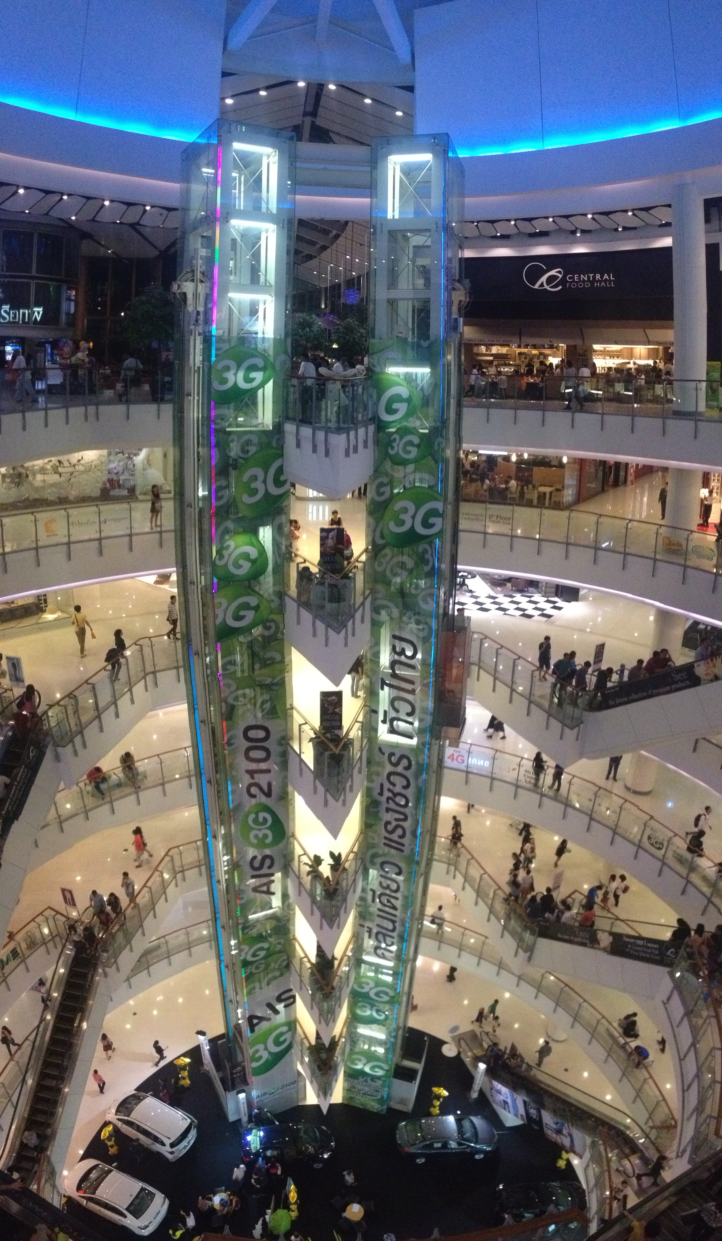 Interior of Zone C